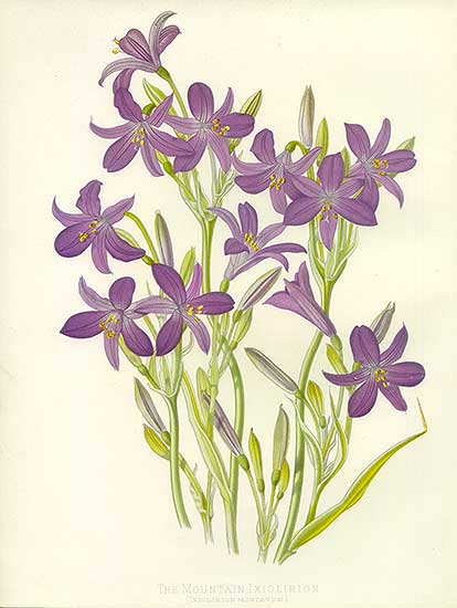 Ixiolirion tataricum var. tataricum, syn. Ixiolirion montanum Original Description: The Mountain Ixiolirion, Ixiolirion montanum